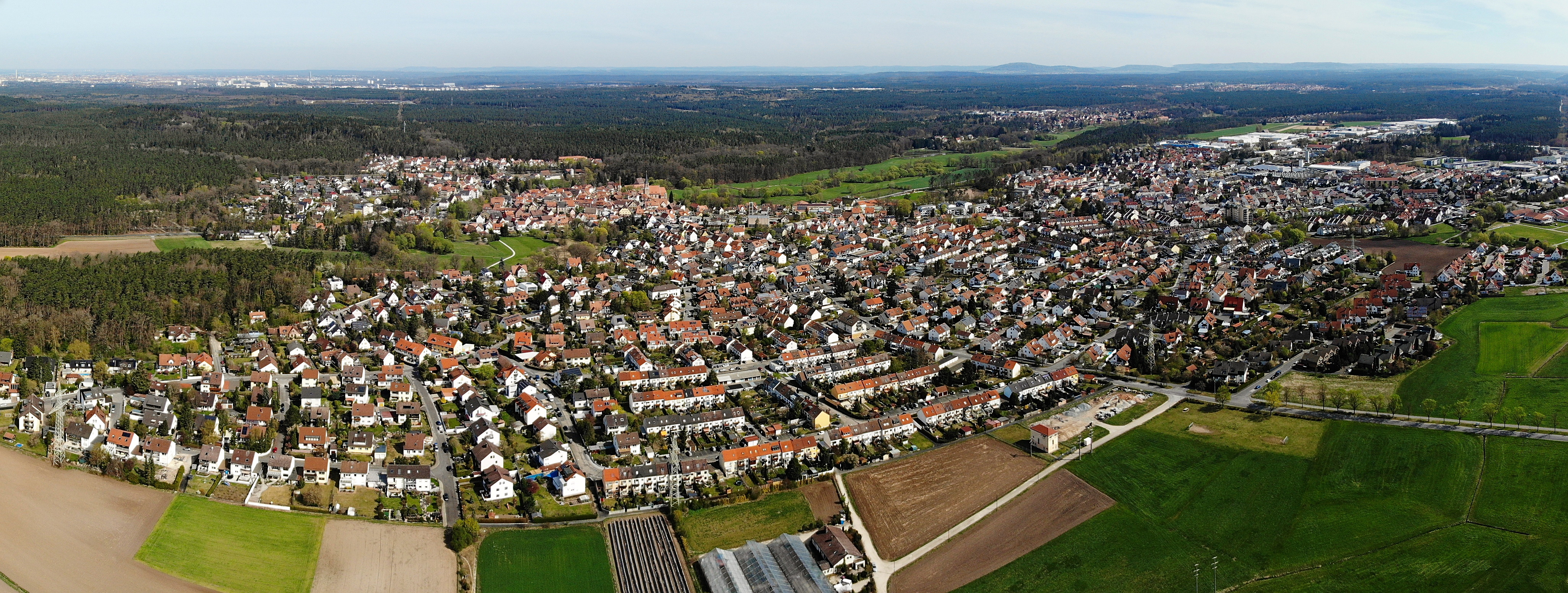 Wendelstein (Mittelfranken) Panorama Luftaufnahme (2020)